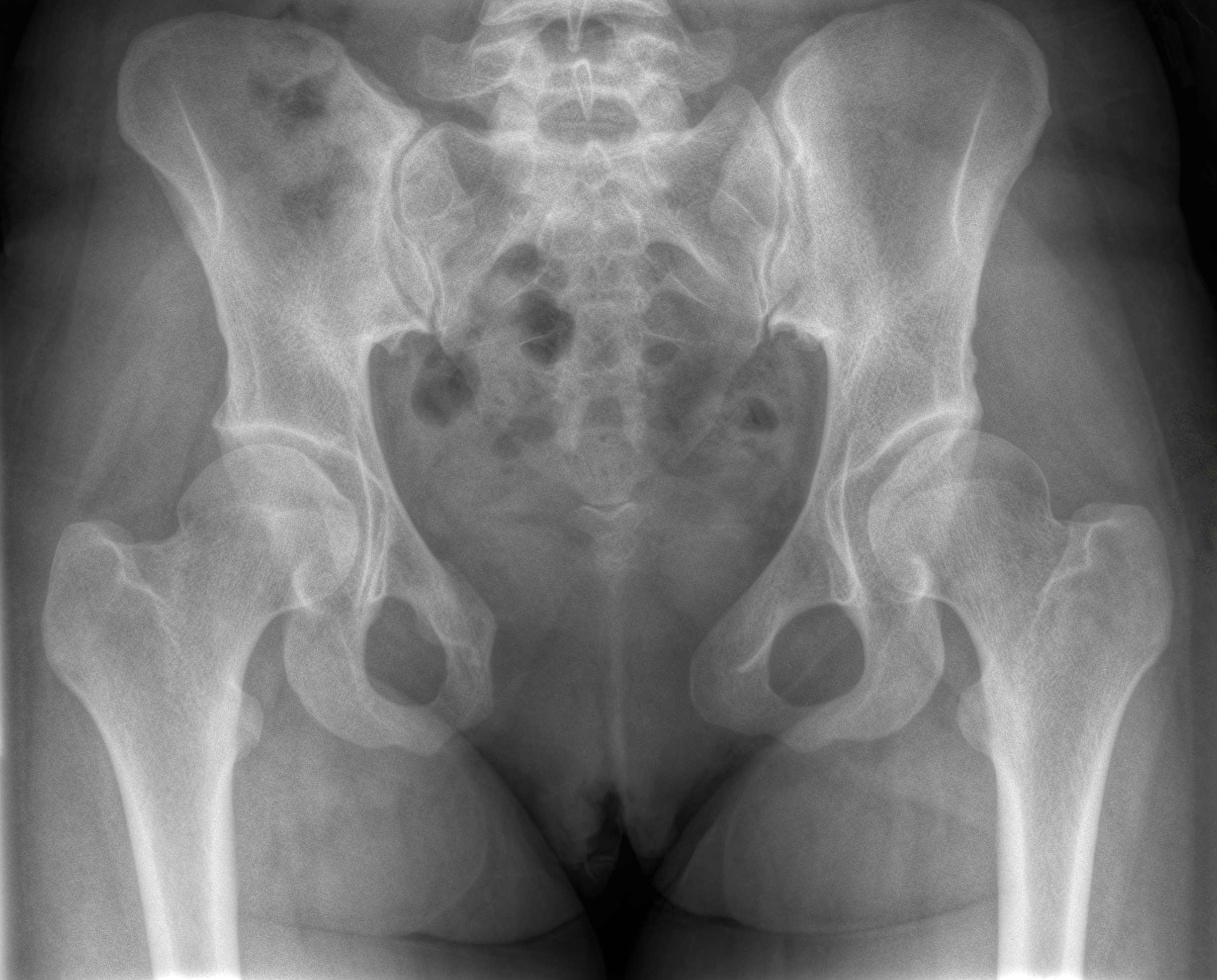 Pelvic Medical X-rays. Seperation of symphysis pubis